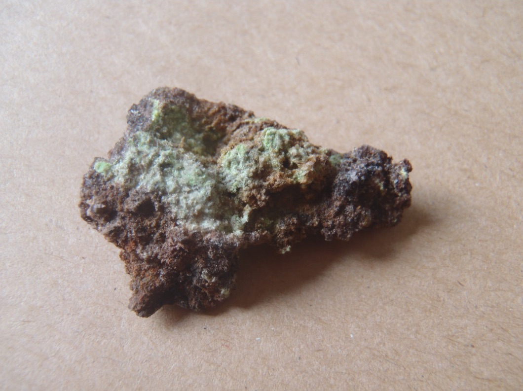 A crust of greenish nickelblödite on gossan; obtained from dealer at the Minerant (mineral show of the MKA) 2016. Inquiry about the method of identification is currently being made. Collection and photo Erik Vercammen.From Km-3 Mine, Lavrion, Lavrion District Mines, Lavrion District, Attikí Prefecture, Greece